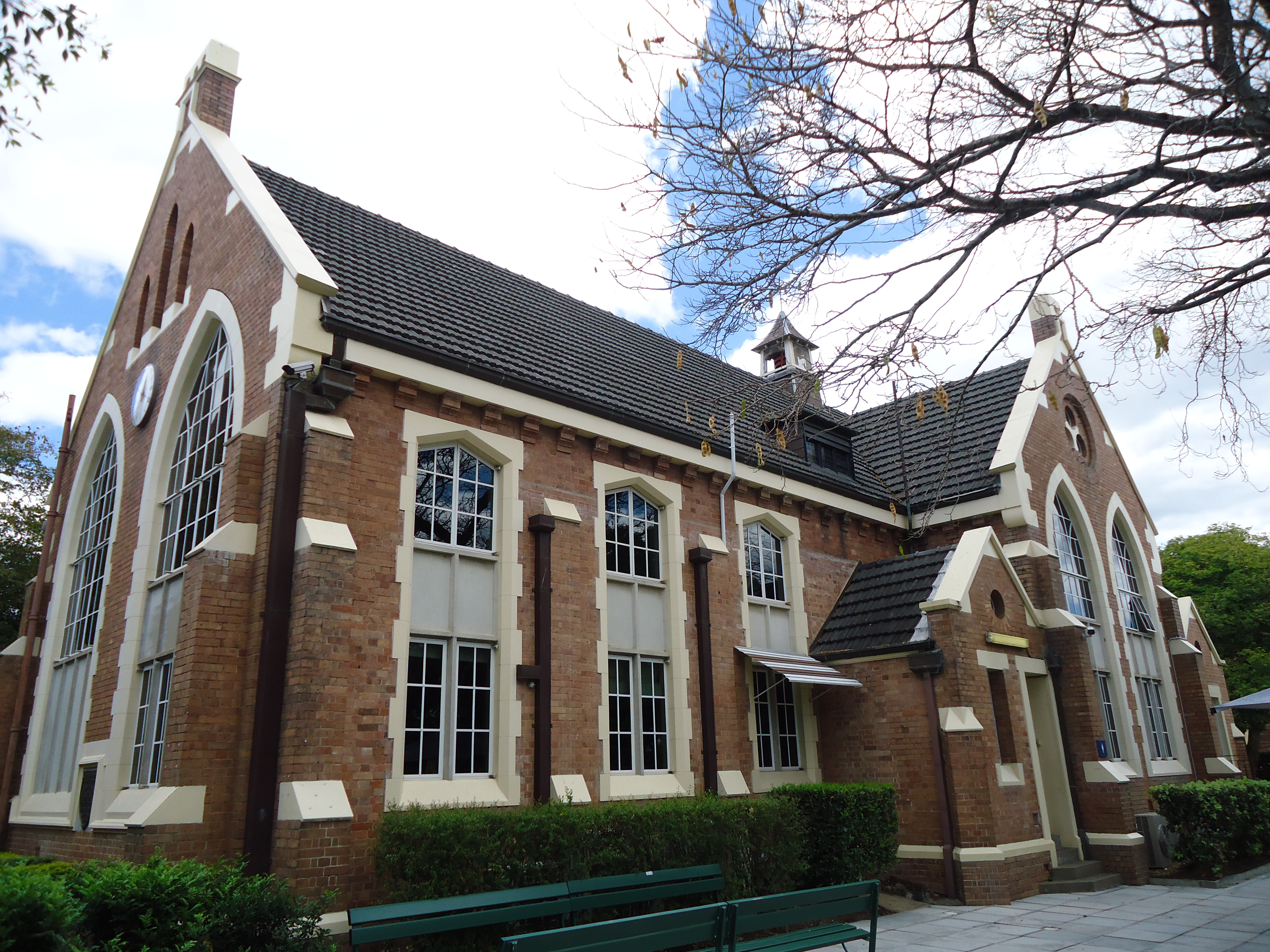 Administration Centre (formerly the science wing) of Brisbane Grammar School. Designed by George Payne (1909)